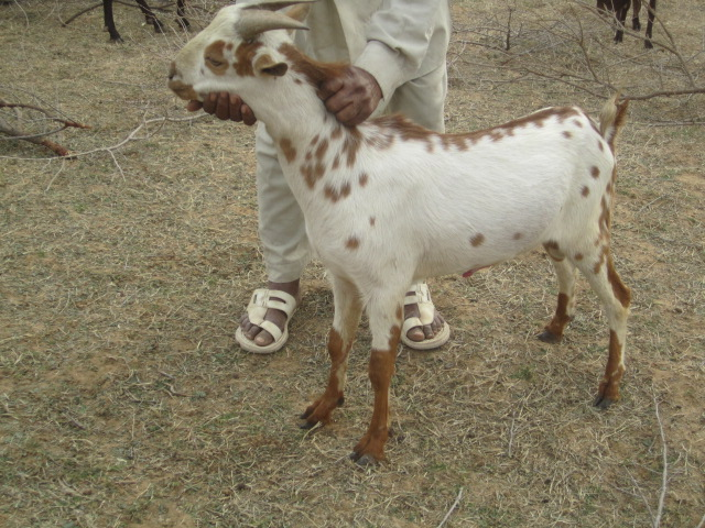 Barbari Buck